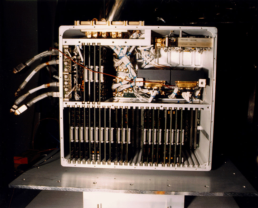 Chandra X-ray space observatory of the NASA : HRC Flight Unit